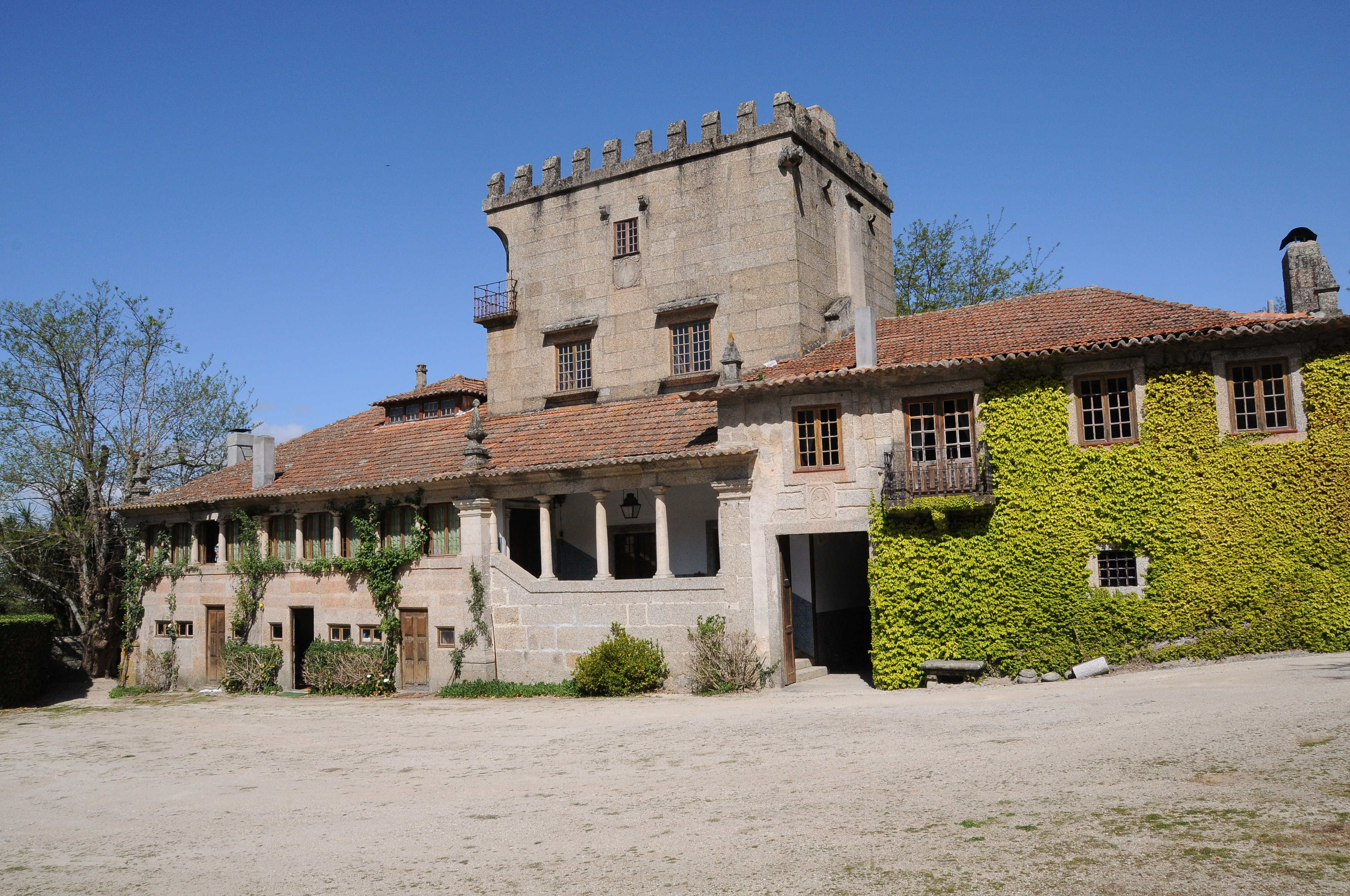 Paço de São Cipriano in Tabuadelo, Guimarães